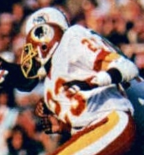 Washington Redskins safety Tony Peters pictured in a defensive play during Super Bowl XVII.